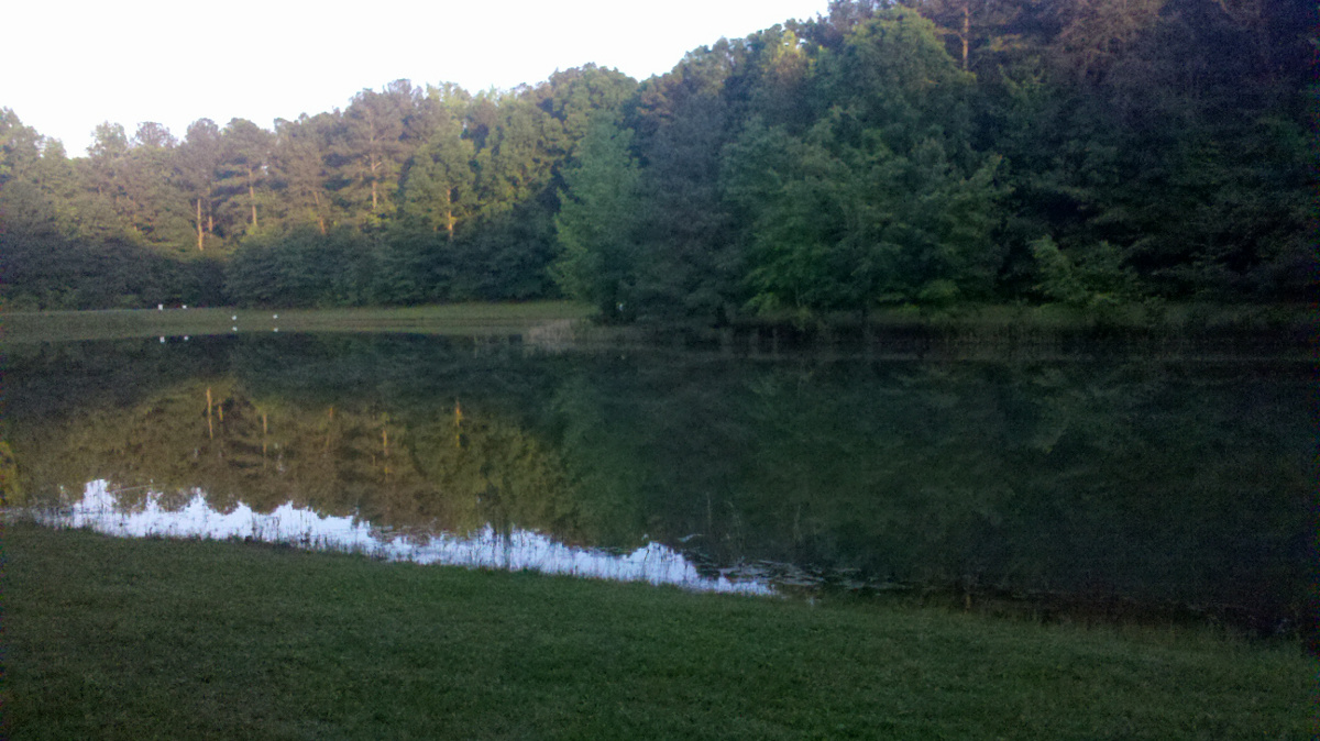 Northwest Park, Chatham County NC, USA, May 2013. Pond.